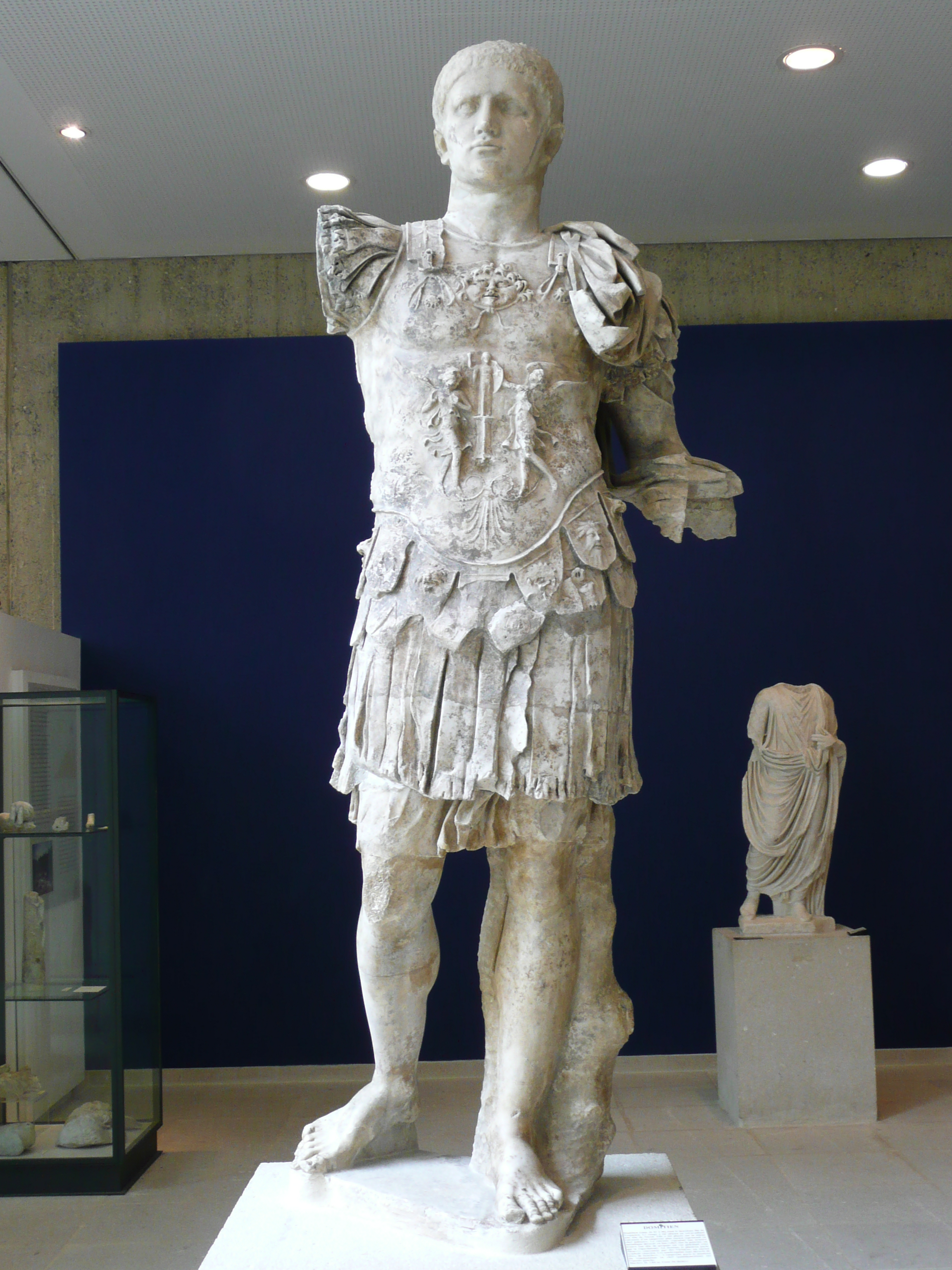 Statue of the Roman Emperor Domitian (r. 81–96), from Vaison-la-Romaine, France.